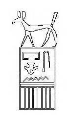 This image depict a hieroglyphic name of Seth-peribsen or Per-ib-sn. It was made through a photocopy of own work and edited.